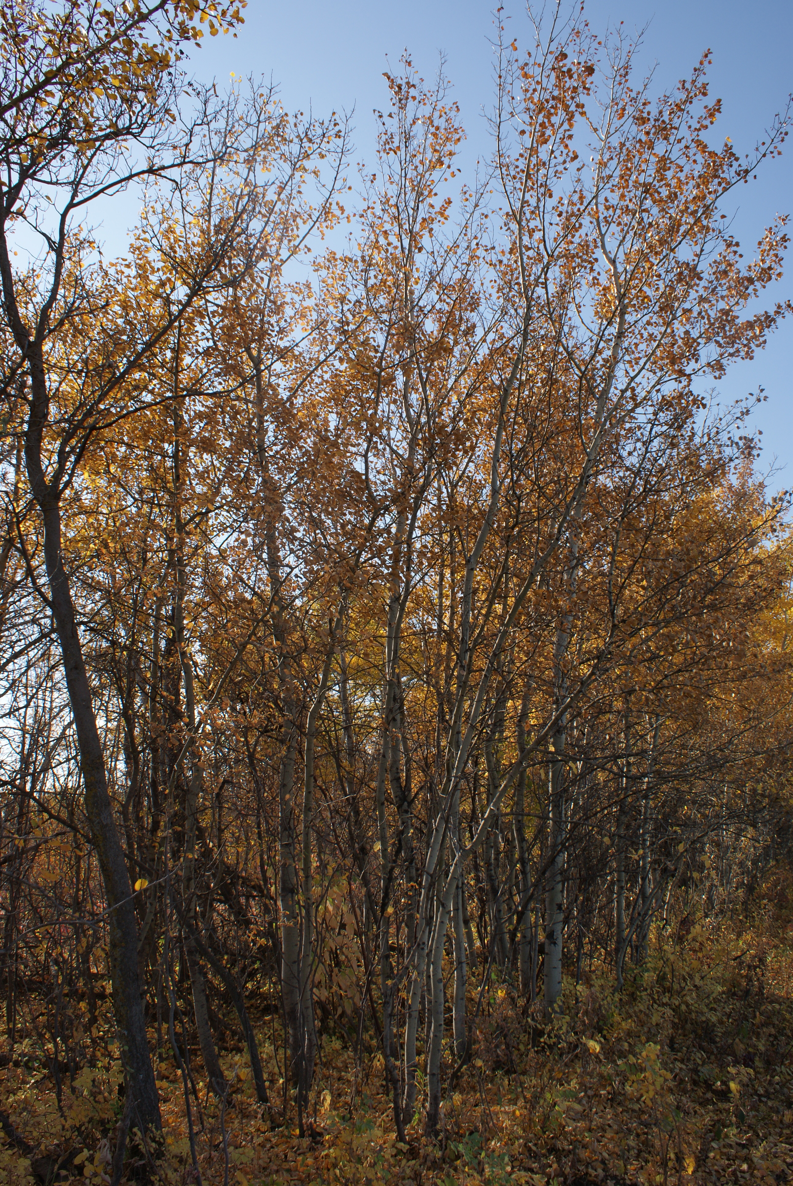 Populus tremuloides Quaking Aspen along Sask Valley Road west of Saskatoon Saskatchewan